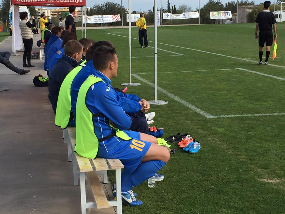 Photo taken at IFCPF Pre Paralympic Tournament Salou 2016 using personal iPhone.